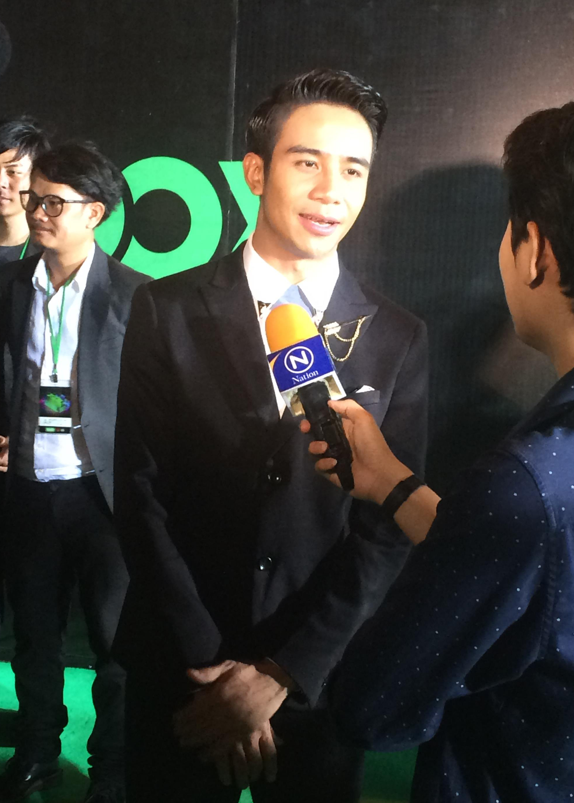 Kong Huayrai at Joox